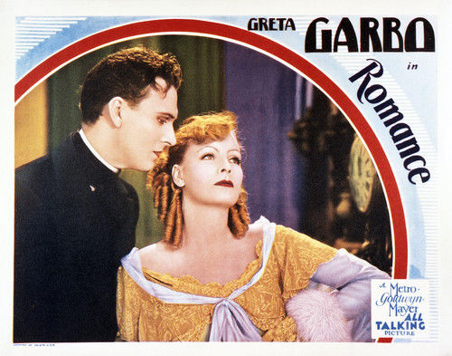 Gavin Gordon and Greta Garbo in the American film Romance (1930) - lobby card